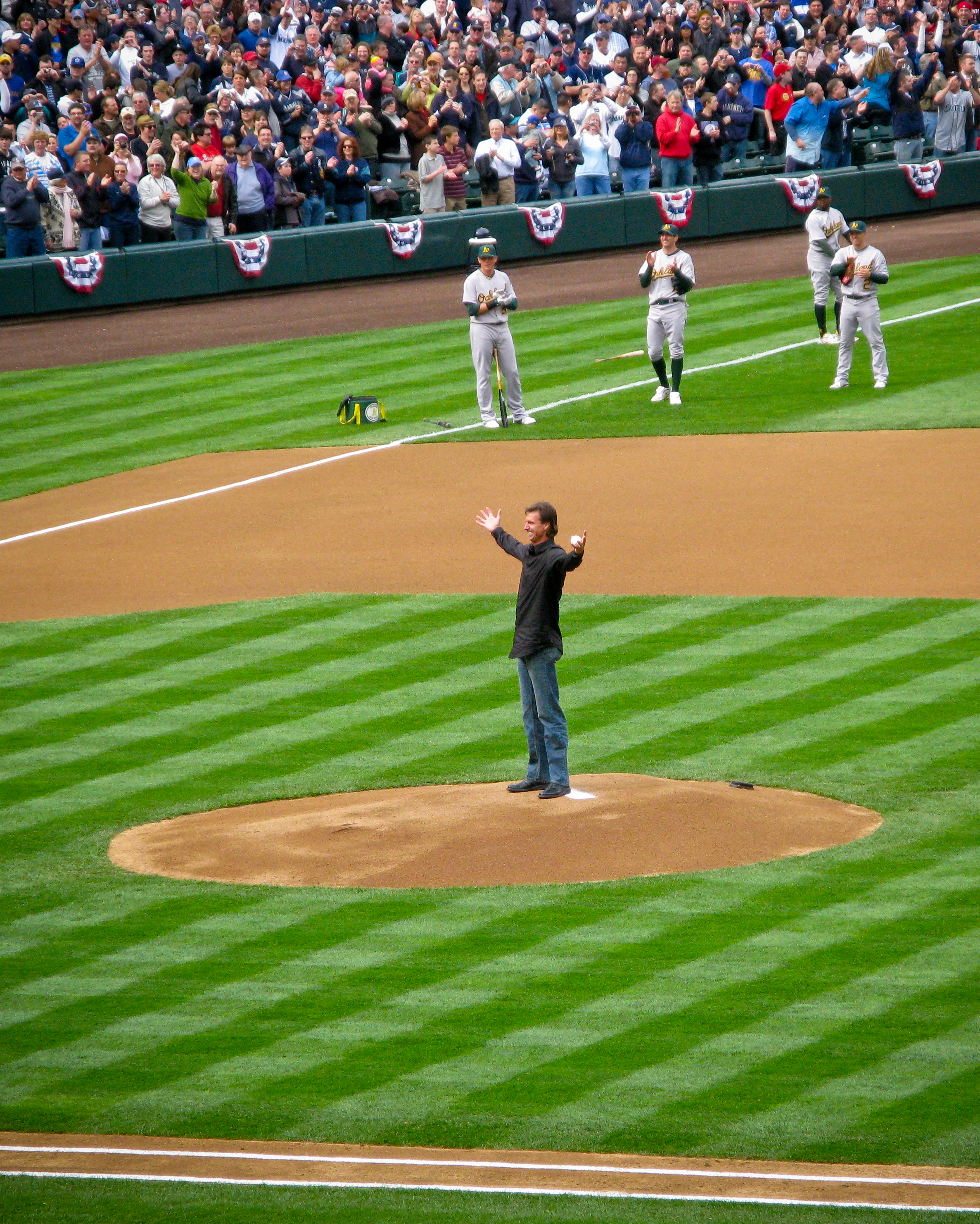 Randy Johnson